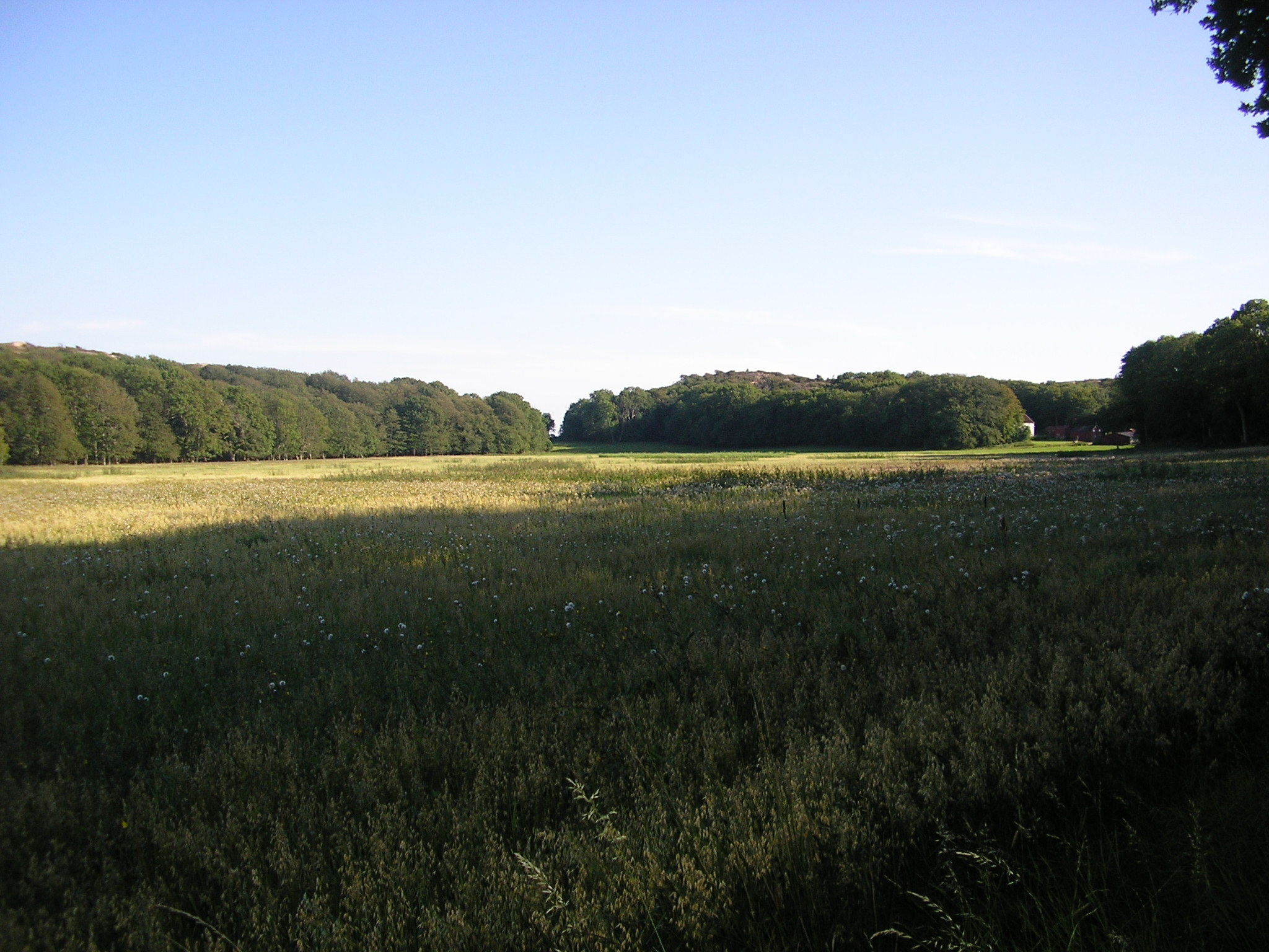 Näverkärr natural preserve (Härnäset, Bohuslän, Sweden).